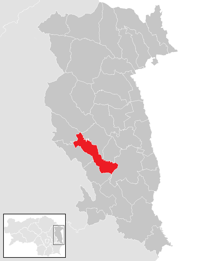 district Hartberg-Fürstenfeld